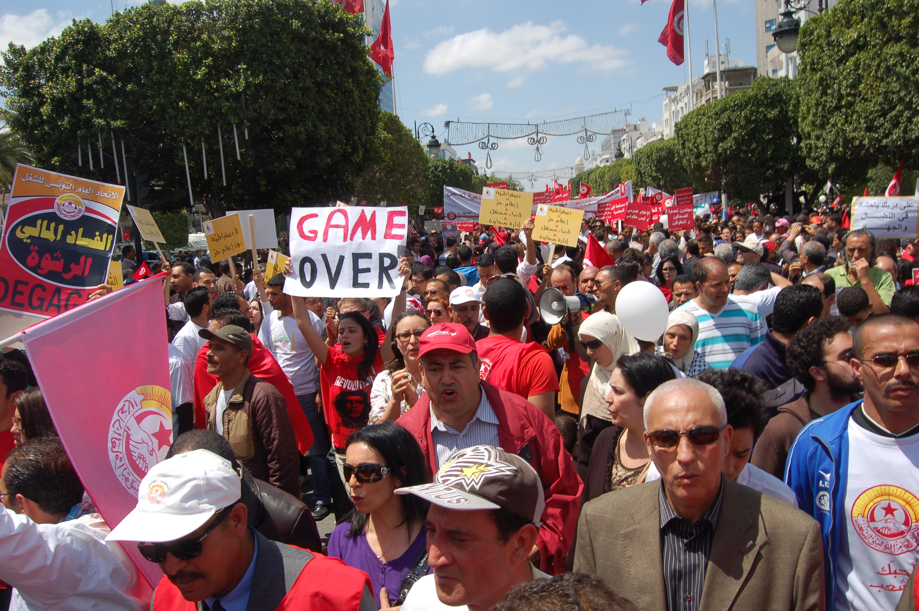 1st of May 2012 protest in Tunis, Tunisia